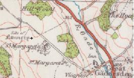 Map showing the location of St Margarets Nunnary in relation to Great Gaddesden Herfordshire, England